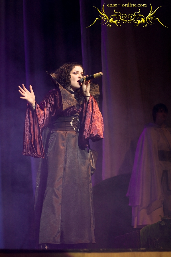 Lyudmila Dymkova (Yennefer of Vengerberg). Rock-opera "Road with no return" of group "ESSE", based on the saga of A. Sapkowski "The Witcher". Scene 6. "Yennefer". Photo from an "ESSE" - group concert in Rostov-on-Don 10.04.2010.